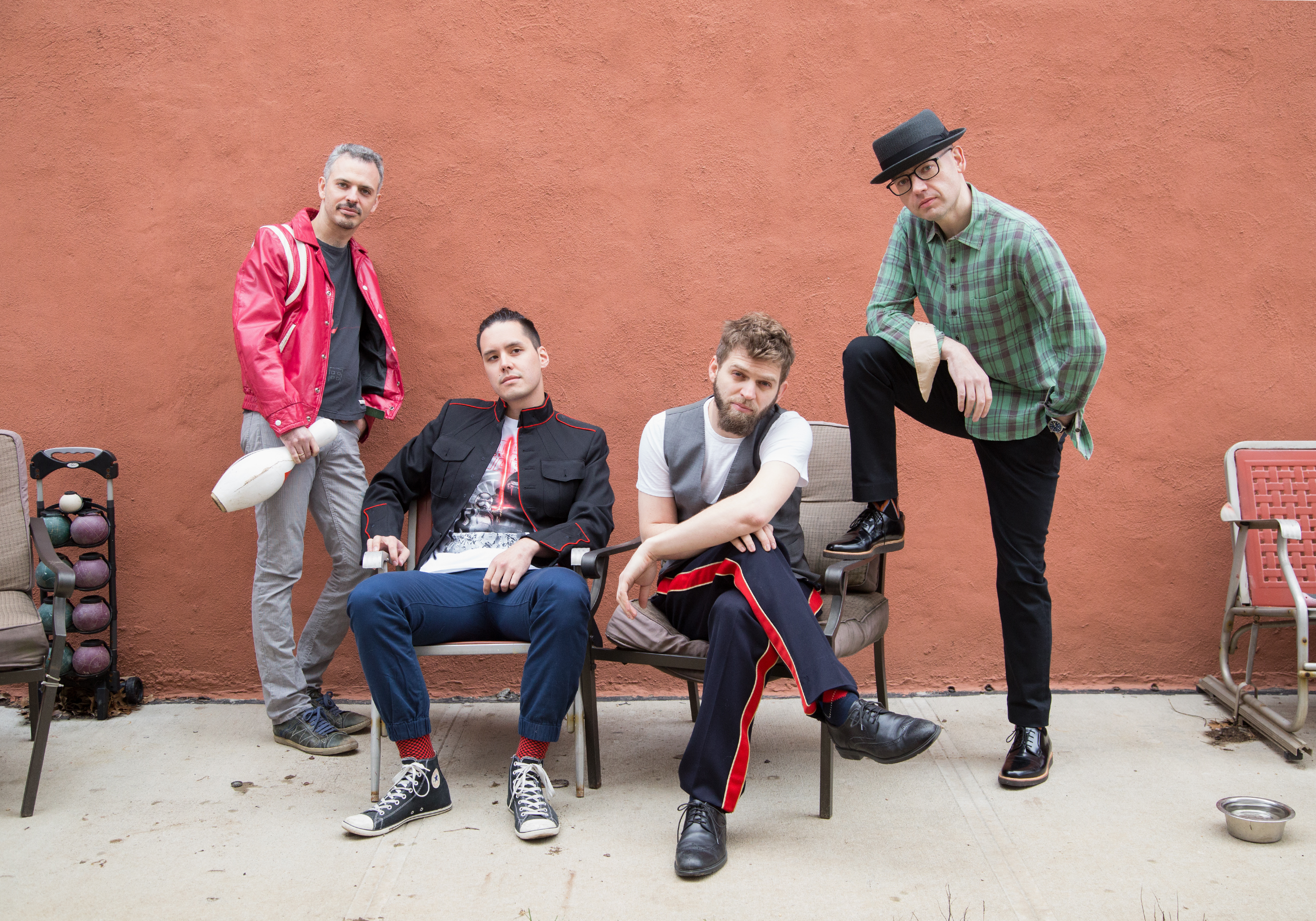 Brooklyn Rider, Credit Erin Baiano